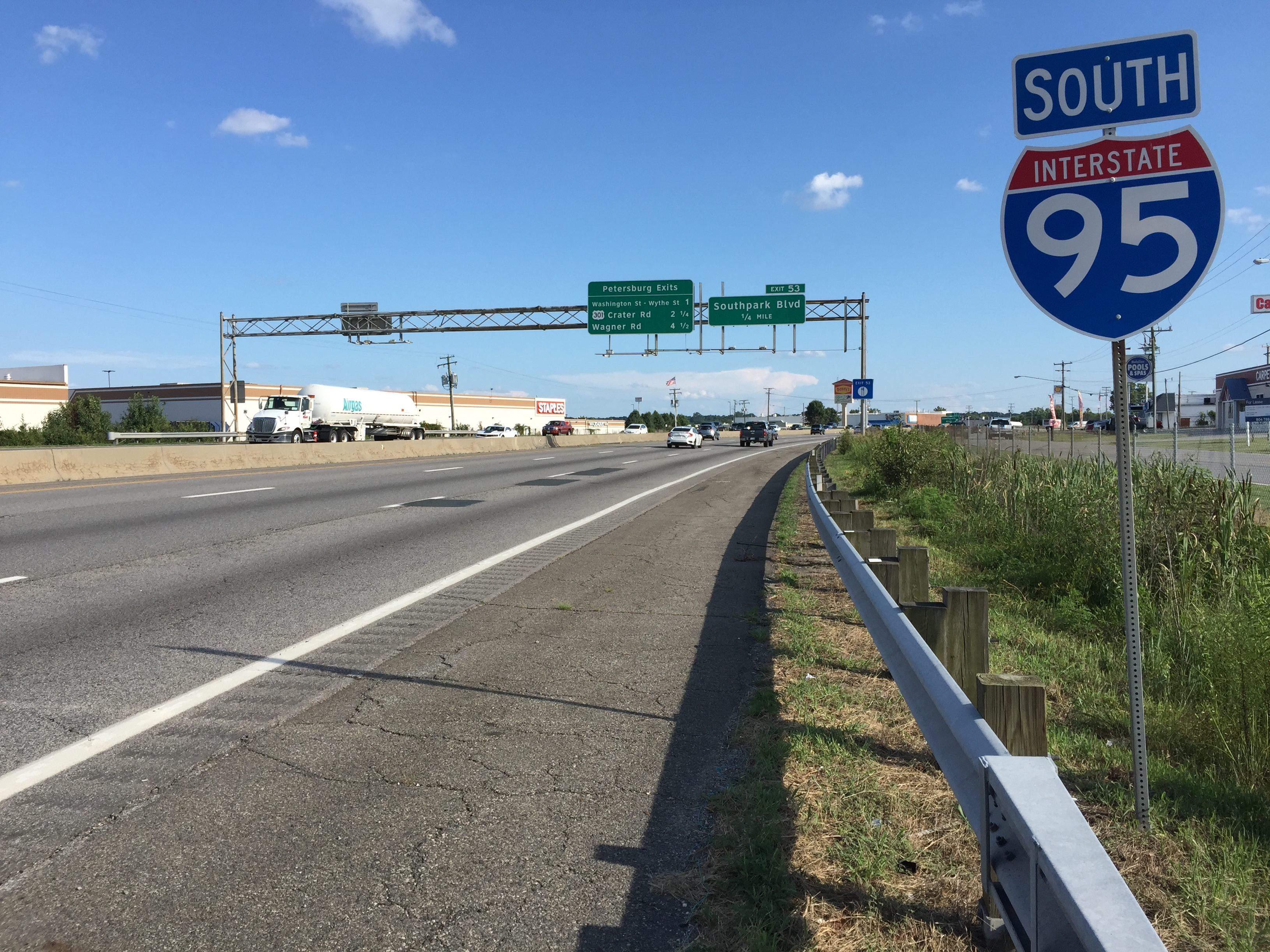 View south along Interstate 95 (Richmond-Petersburg Turnpike) between Exit 54 (Virginia State Route 144/Temple Avenue) and Exit 53 (Southpark Boulevard) in Colonial Heights, Virginia